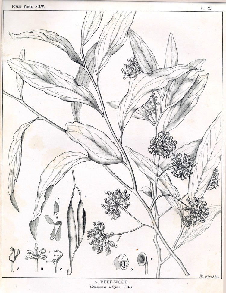 Beefwood (Stenocarpus salignus, R.Br., Plate 23 from Forest Flora of New South Wales by by Joseph Henry Maiden (1859–1925)